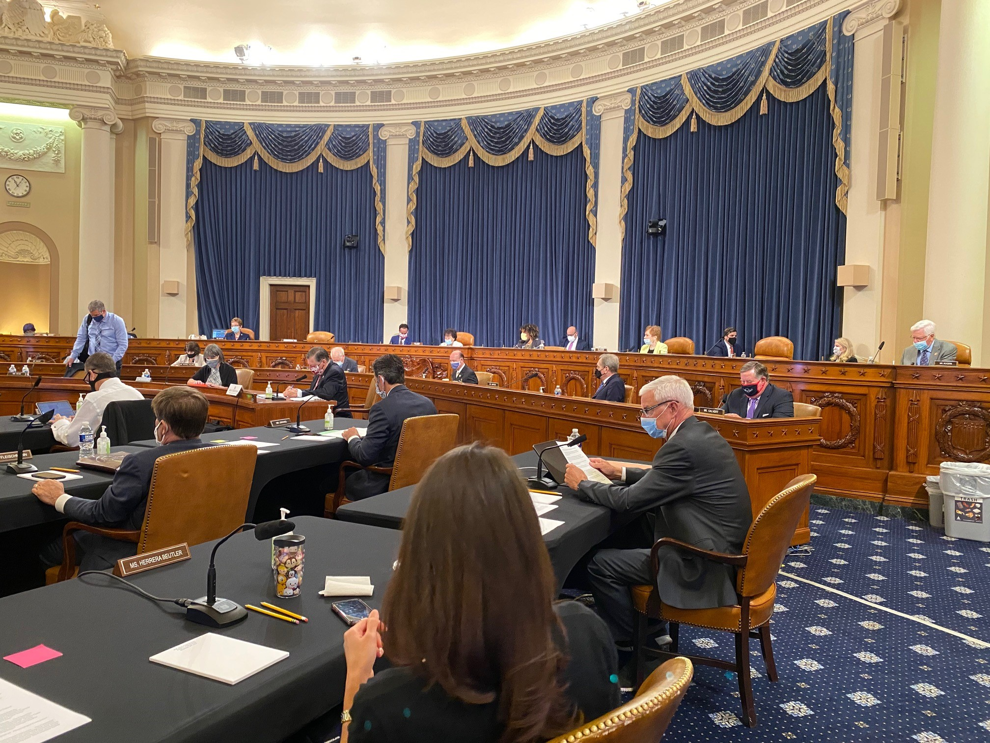 I rose in opposition to the House Dems proposal to breach spending caps at the House Appropriations Committee markup. It’s not only fiscally irresponsible, but it also overturns good faith efforts and terms previously agreed to by both parties. This is not the right way forward.